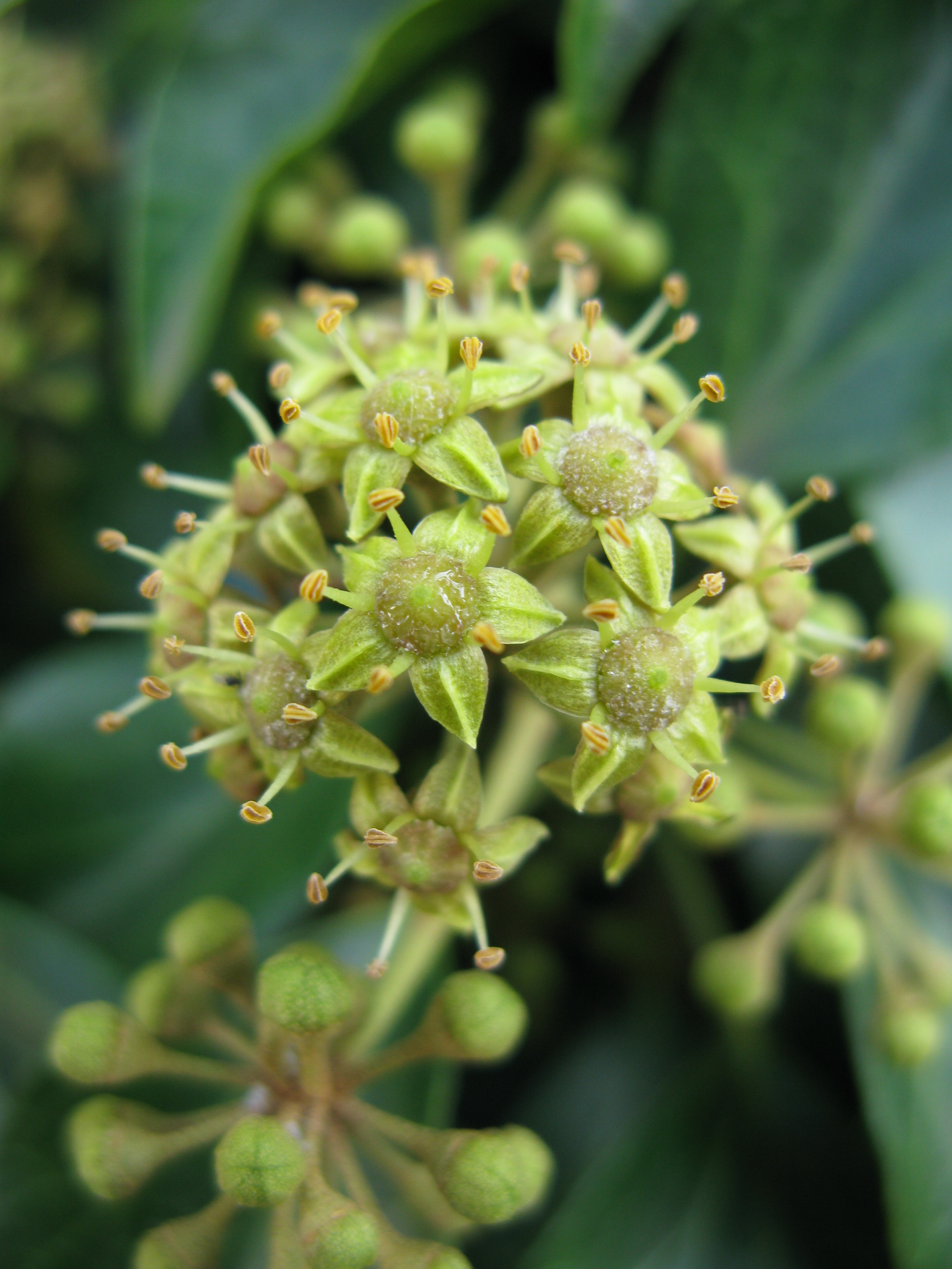 Hedera rhombea, Aizu area, Fukushima pref., Japan